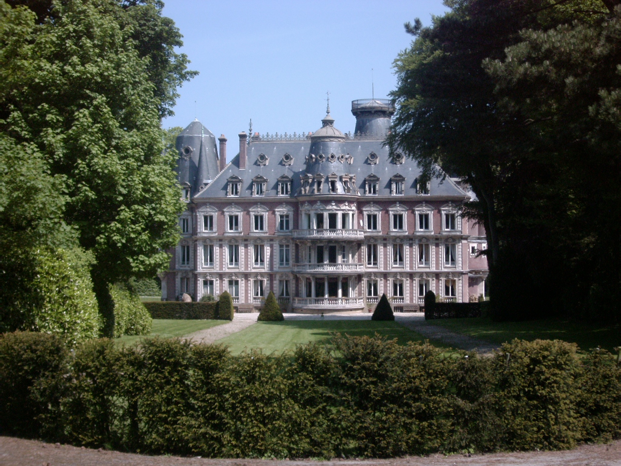 Das Château de Fréfossé bei Etretat Datum: 04.05.2011 Urheber: M. Pfeiffer alias Gordito1869 Quelle: privates Fotoarchiv des Urhebers